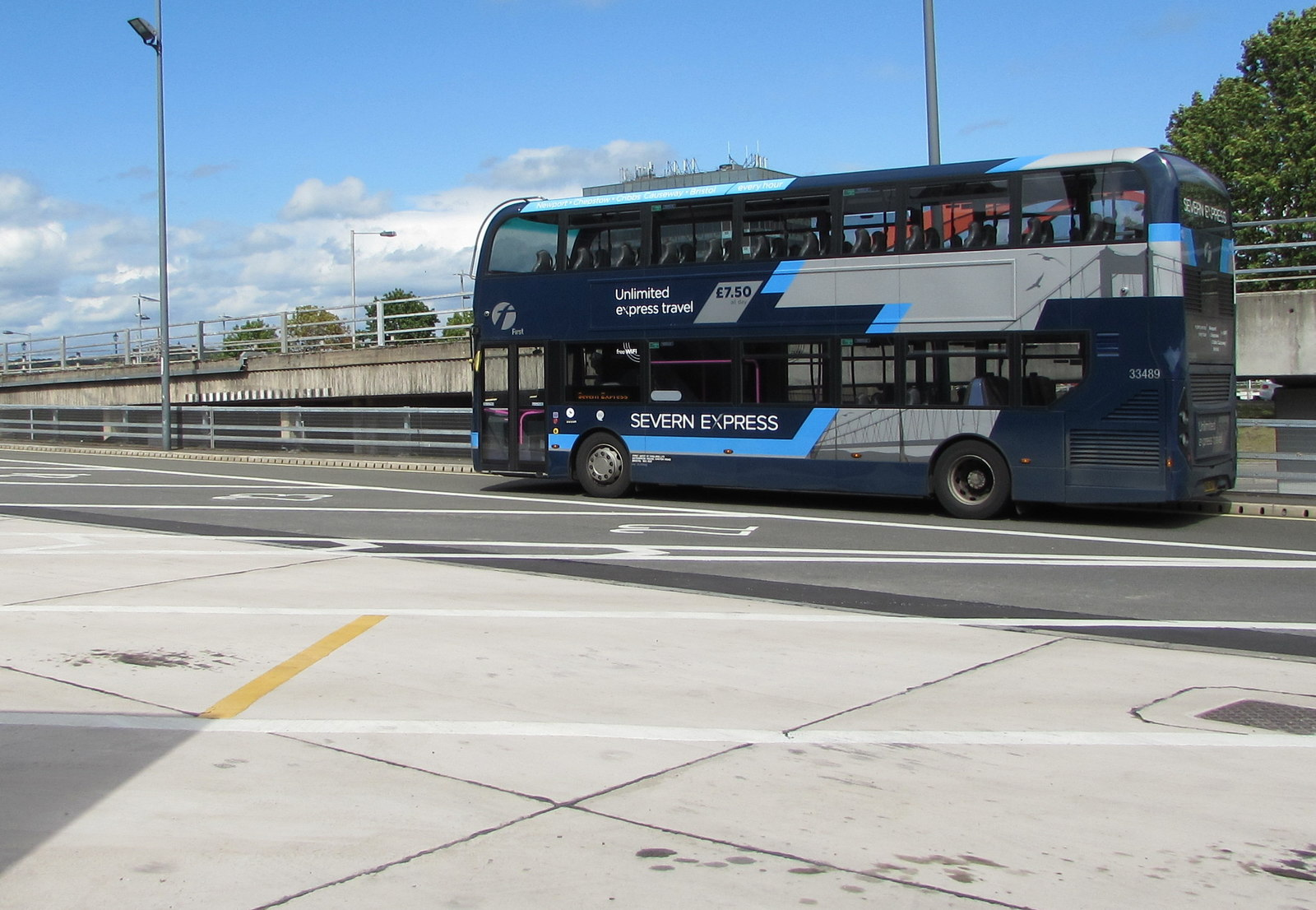 Severn Express double-decker bus in Market Square bus station, Newport. Viewed in early August 2019. The Severn Express service to Bristol via Chepstow is operated by First West of England. In July 2019, it was announced that the operation of the Severn Express service is to be transferred to Stagecoach West on September 1st 2019. There will be no changes to bus fares or service frequency.